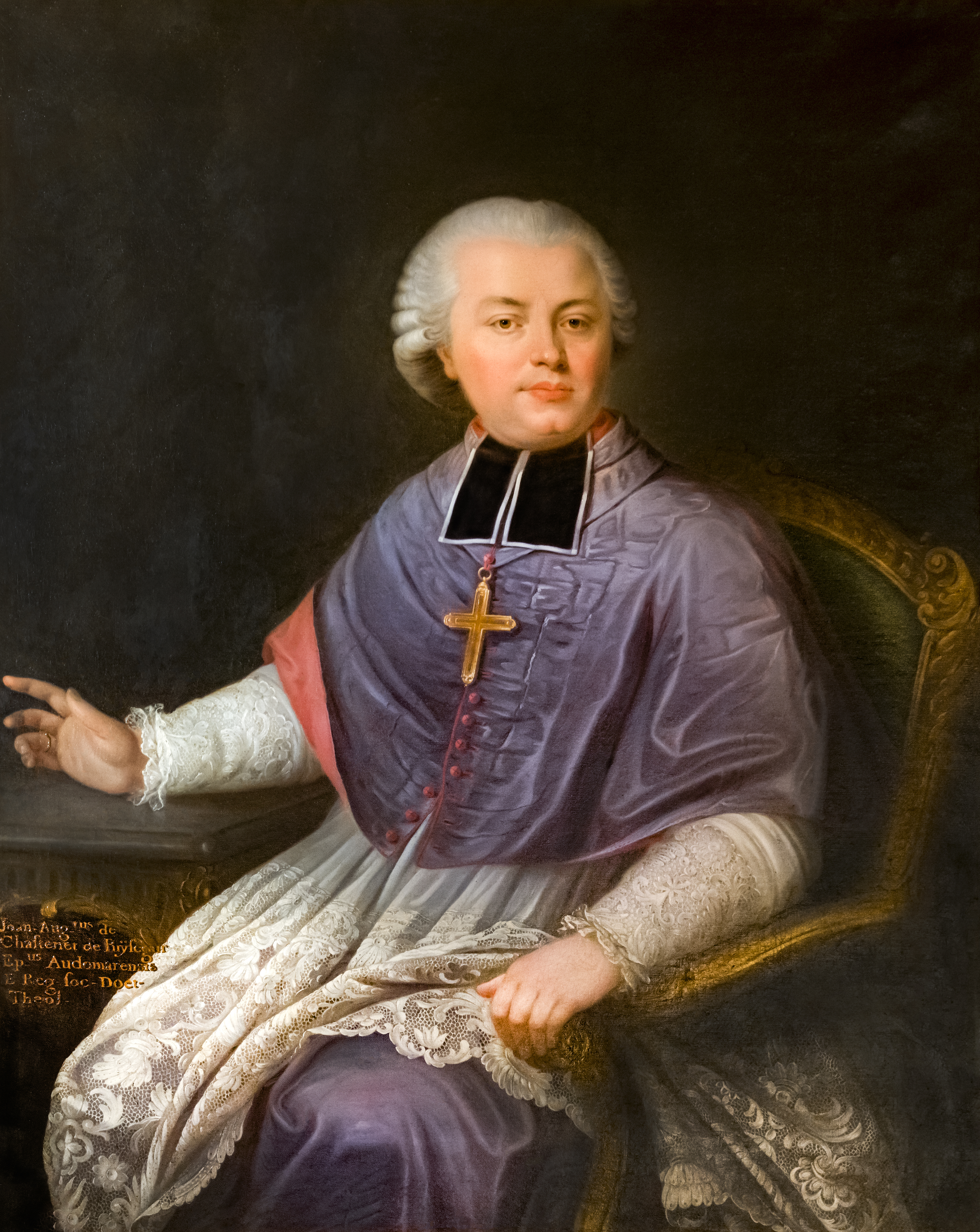 Depicted person: Jean Auguste de Chastenet de Puységur – French politician and priest